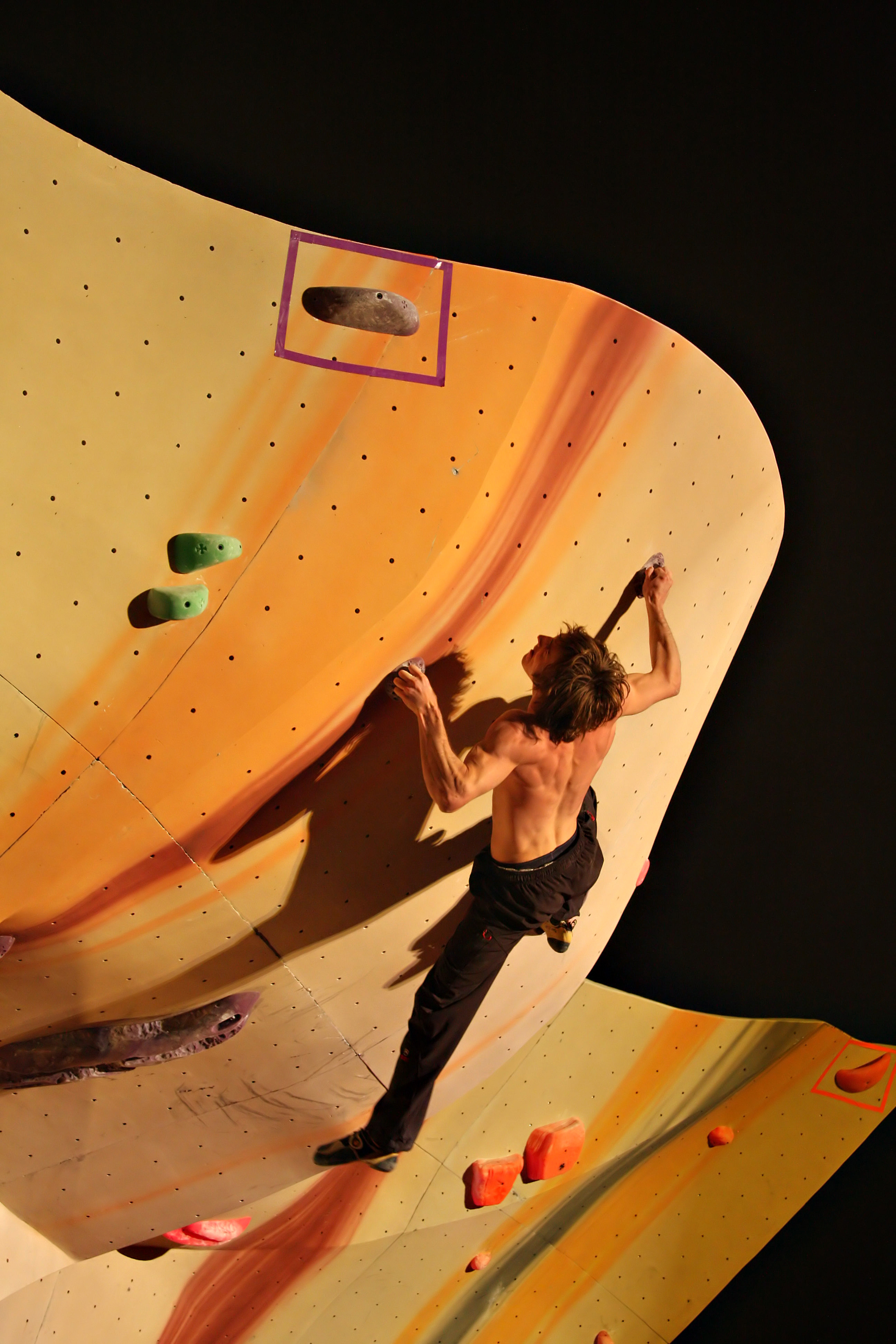 I went to a climbing competition here in Boulder after I heard that my parkour instructors would be giving a few shows there to promote their gyms. Though I just went to see my instructors perform, the competition was surprisingly entertaining. It's amazing seeing some of the very best climbers in the country doing some of the most difficult routes I'm ever likely to see.